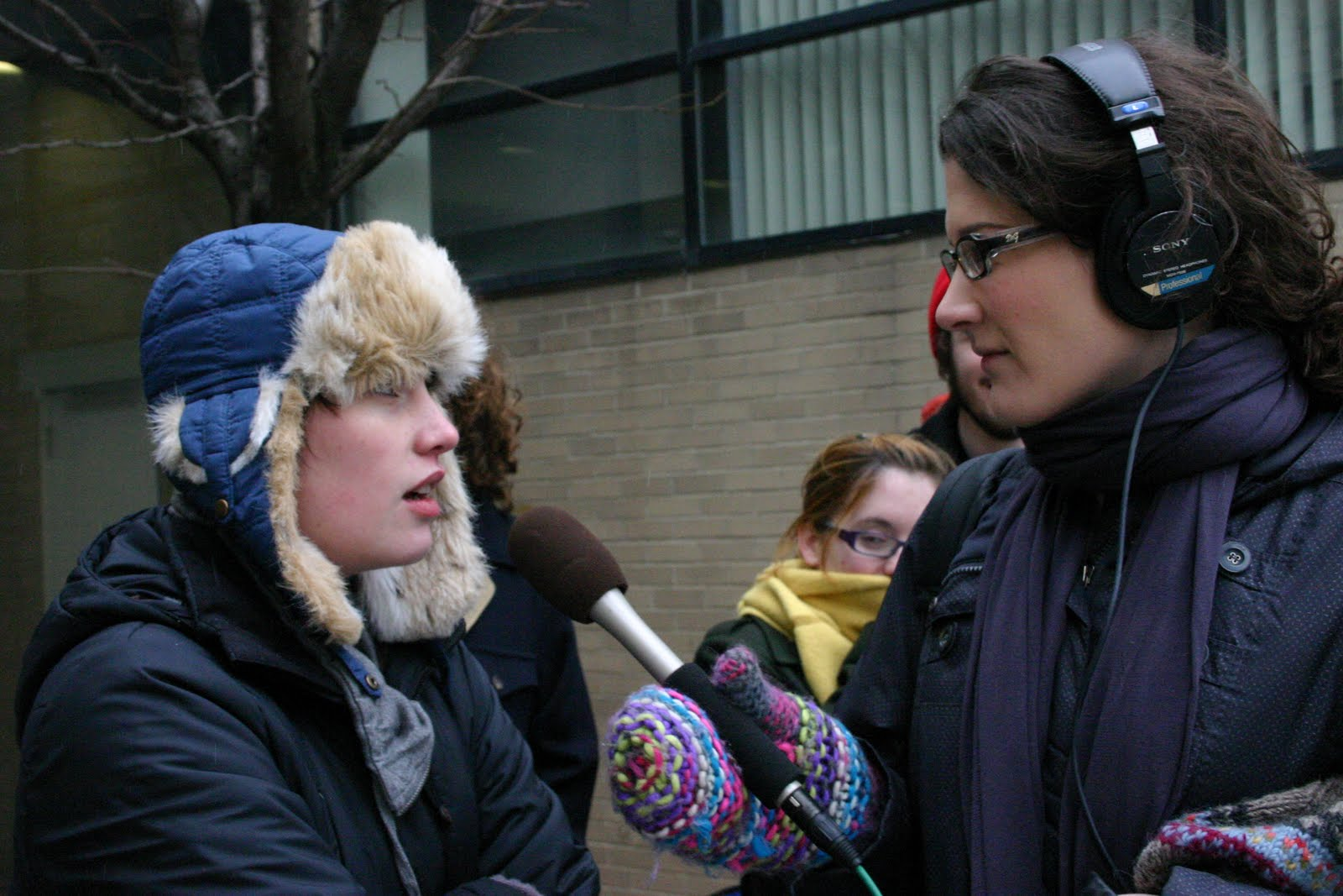 WBEZ reporter Eilee Heikenen-Weiss interviews a Shimer College student during a protest of a Board of Trustees meeting in February 2010.